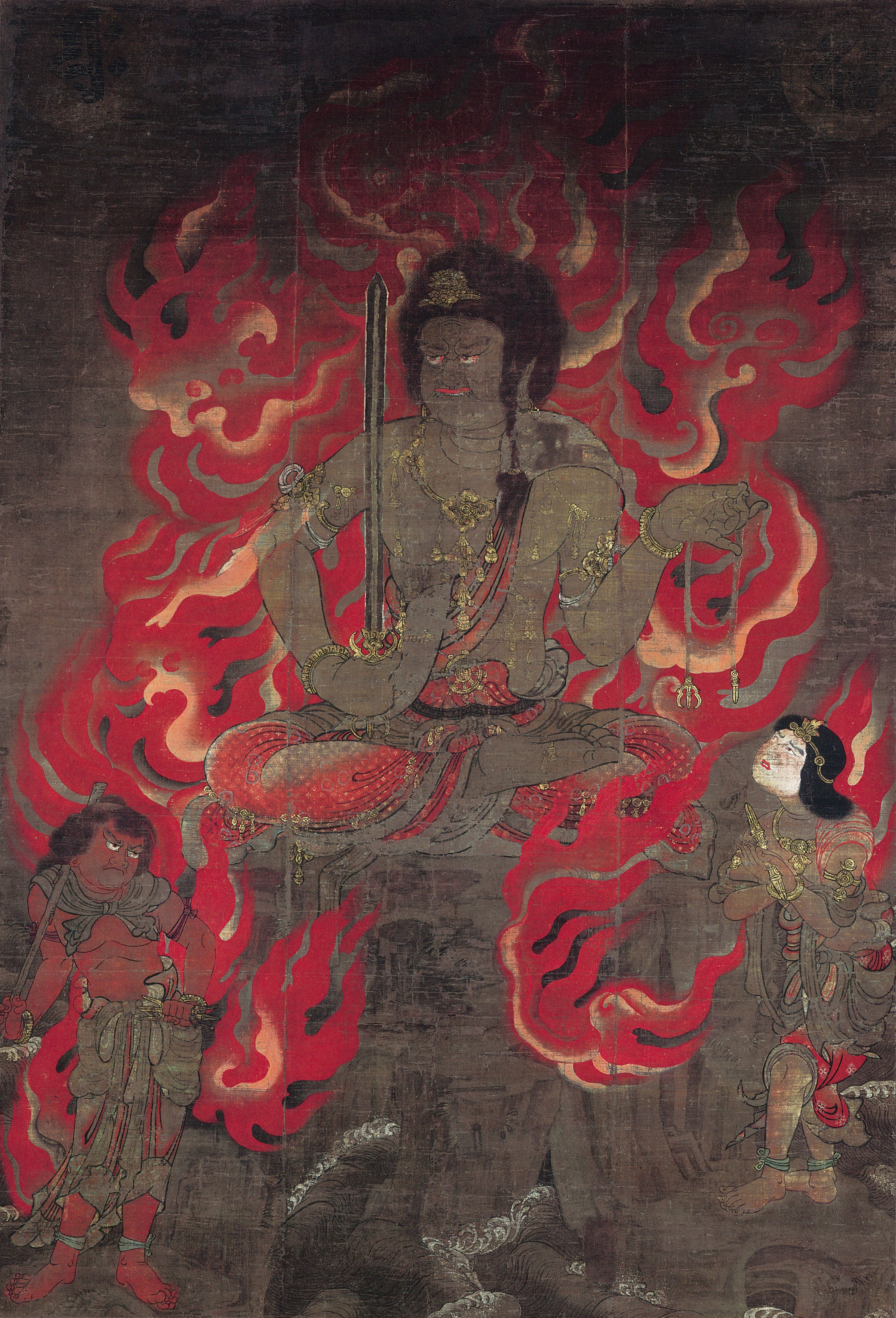 Fudō Myōō (Acala), one of the Five Guardian Kings (絹本著色五大尊像, kenpon chakushoku godaisonzō) from Daigo-ji, Kyoto, Japan. Hanging scroll, 193.9 cm x 126.2 cm. Colour on silk. The scrolls have been designated as National Treasure of Japan in the category paintings.